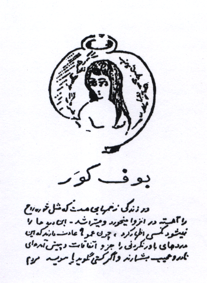 This is the first page of The Blind Owl (Sadegh Hedayat's most famous work), which was published in Mumbai in 1937. It contains Hedayat's handwriting and drawing.